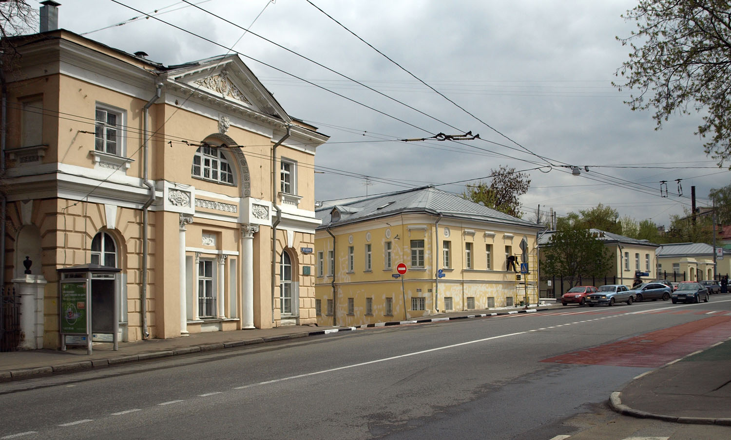 Yauzskaya Hospital, Moscow. Originally built in 1790s as Batashov Palace, converted to a public hospital in 1878